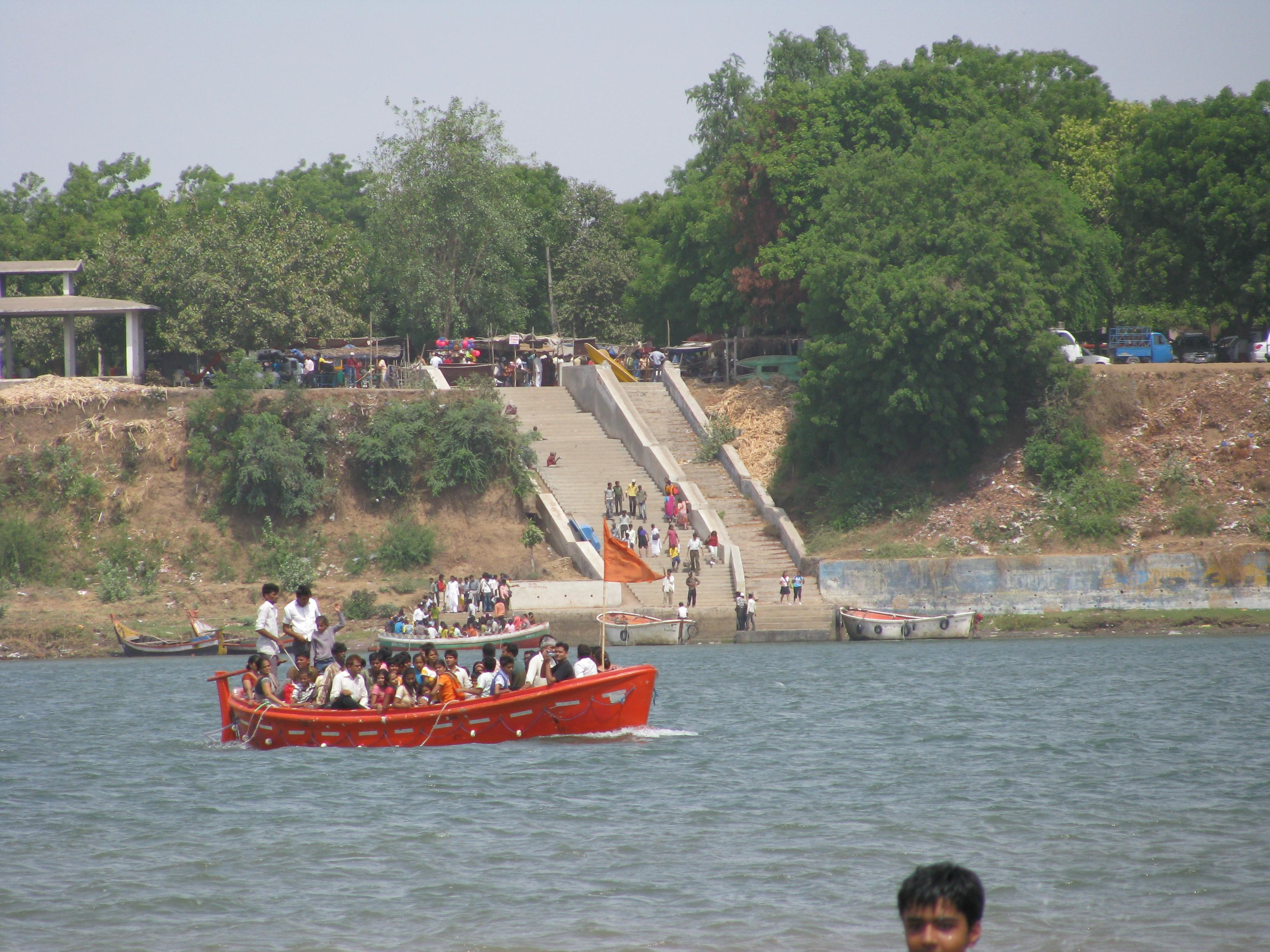 ગુજરાતી: Narmada river hodighat at Kabirvad It is my own work.